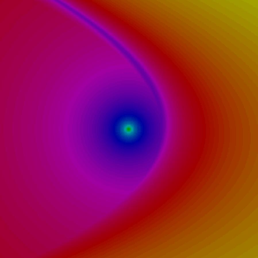 Scalar Potential of a Point Charge Glenn Decker, Argonne National Lab Scalar potential of a point charge shortly after exiting a dipole magnet, moving left to right. One can see the synchrotron radiation wave front pull away from the electron (actually positron, since the scalar potential is positive). It's only moving 0.9 times the speed of light though. Otherwise the height of the wavefront diverges towards infinity while its width shrinks to zero. The observer is moving along with the positron, which is why it stays in the middle. Argonne National Laboratory.